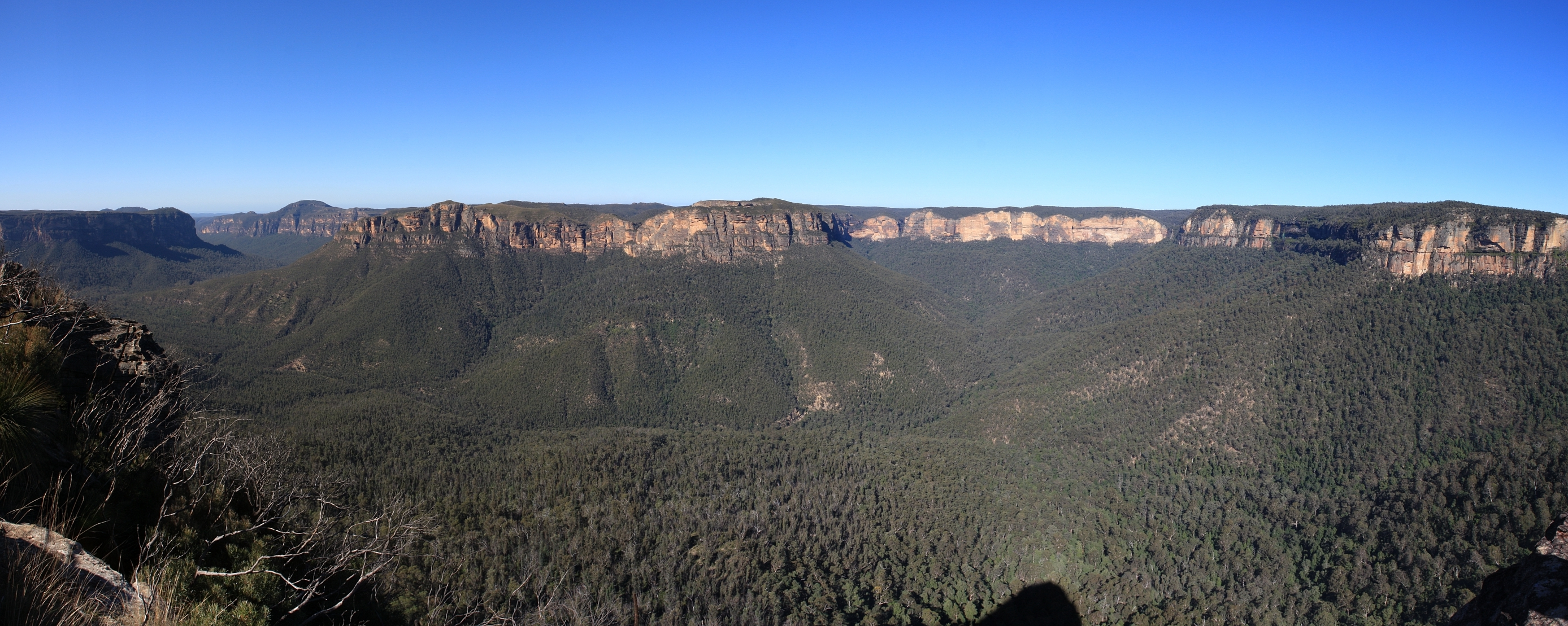 Gross Valley, New South Wales as seen from Pulpit Rock which is around the Black Head, New South Wales area.